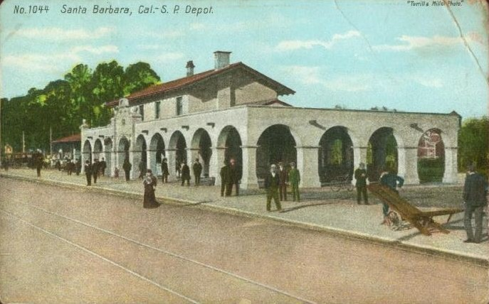 Postcard picture of railroad station in Santa Barbara, California. The same building exists today at the Santa Barbara Amtrak station.